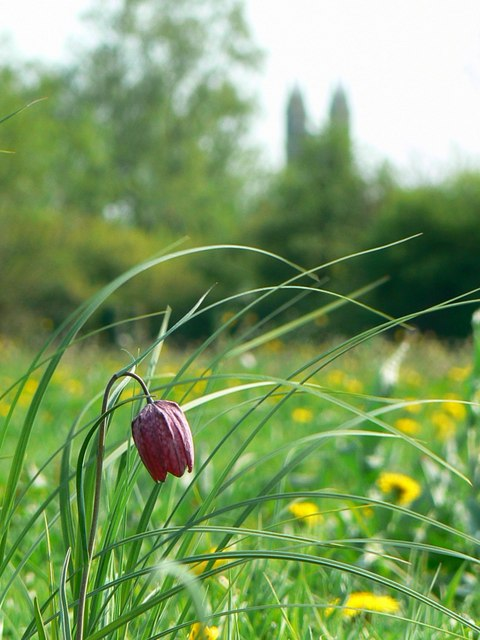 Snake's head fritillary, North Meadow NNR, Cricklade The fritillary is flower in the left lower corner of the image. In the background is St Sampson's church SU0993.